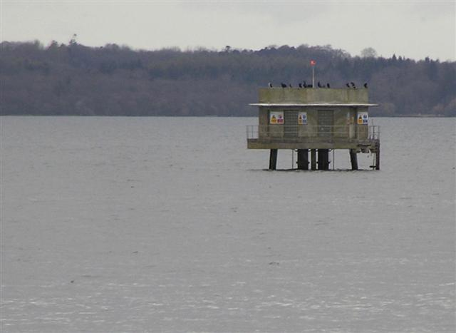 Platform at Lough Neagh Zooming in from Loughview Road. I am not sure what its purpose was.